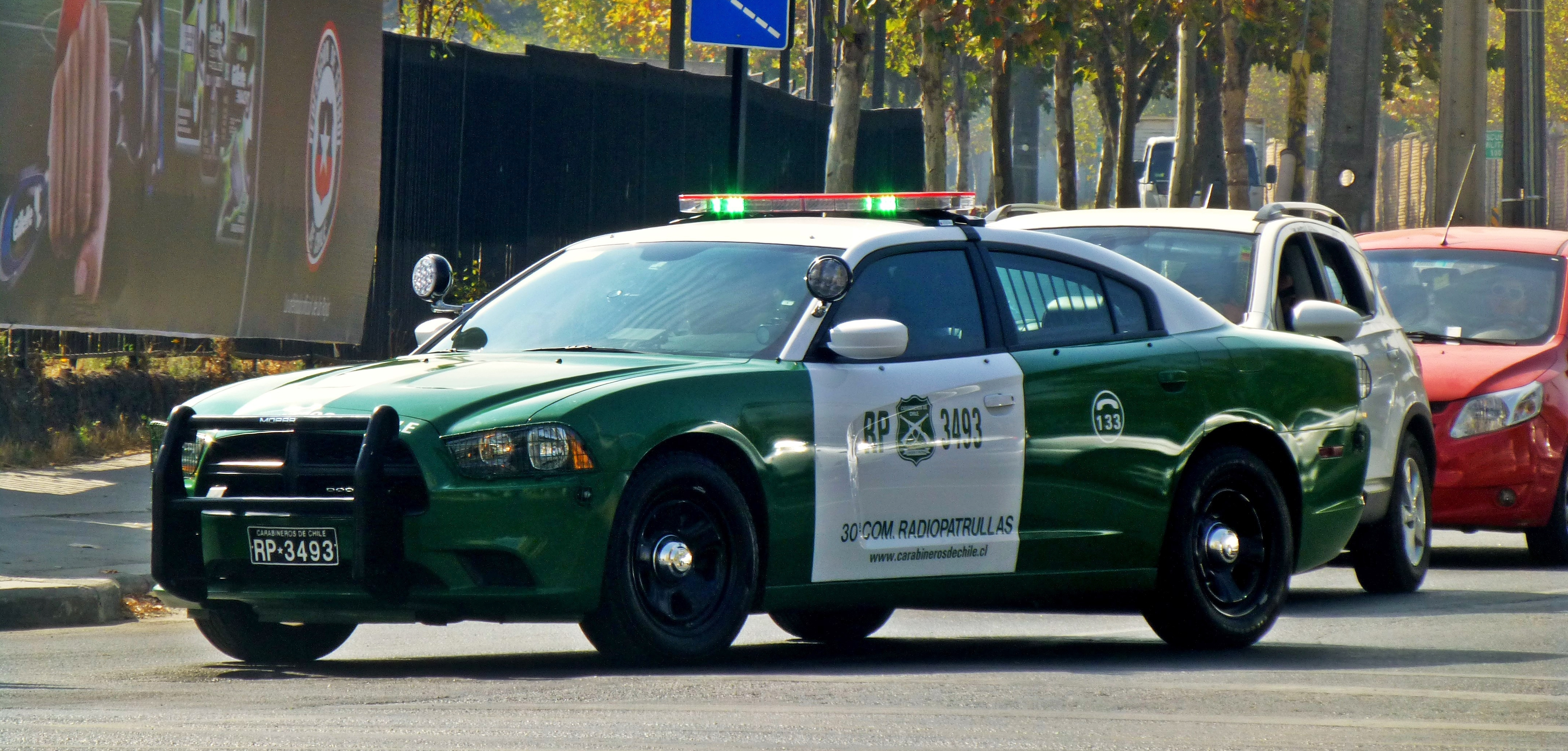 Dodge Charger police car, used by Carabineros de Chile in Santiago.